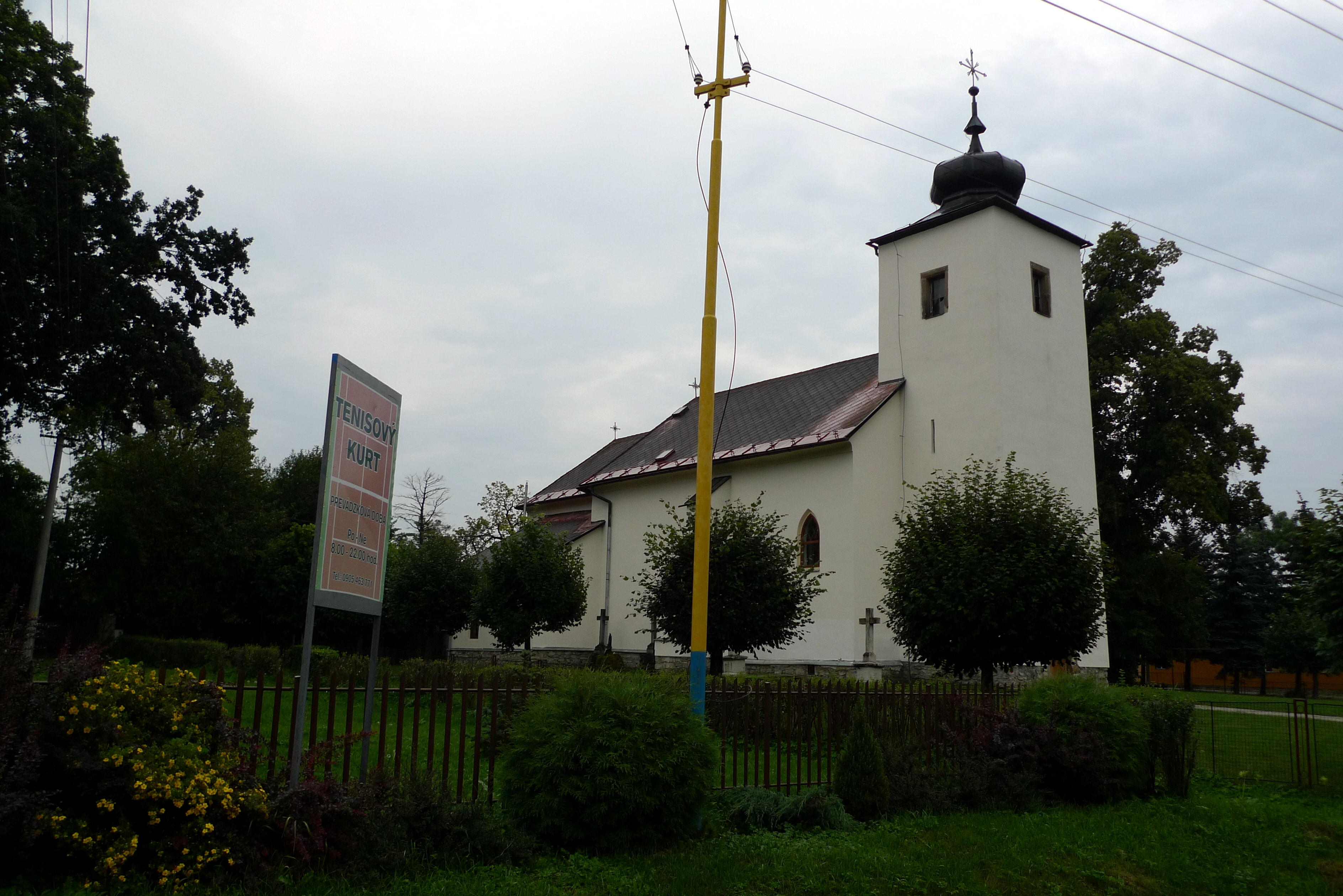 Betlanovce - Village in Spišská Nová Ves District, Slovakia